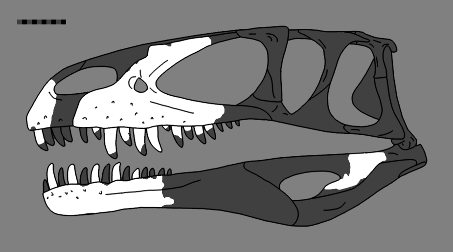 Reconstructed skull of Duriavenator hesperis showing known material (white) of the holotype and only known specimen. Unknown bones based on related Eustreptospondylus oxoniensis. Scale bar is 10cm, image is 10px/cm. Cranial anatomy based on Benson (2008) "A redescription of "Megalosaurus" hesperis (Dinosauria, Theropoda) from the Inferior Oolite (Bajocian, Middle Jurassic) of Dorset, United Kingdom"